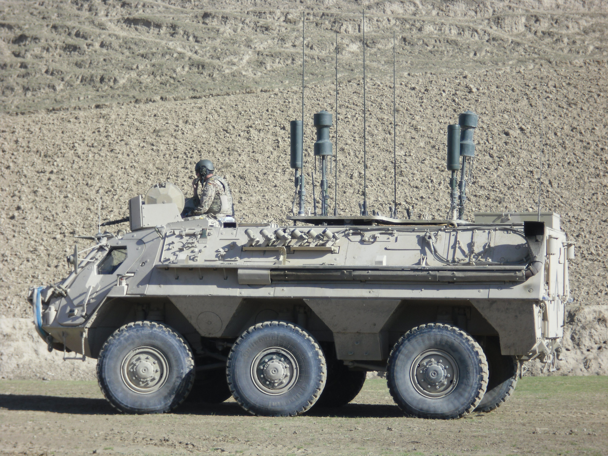 TPz Fuchs ELOKA 2011